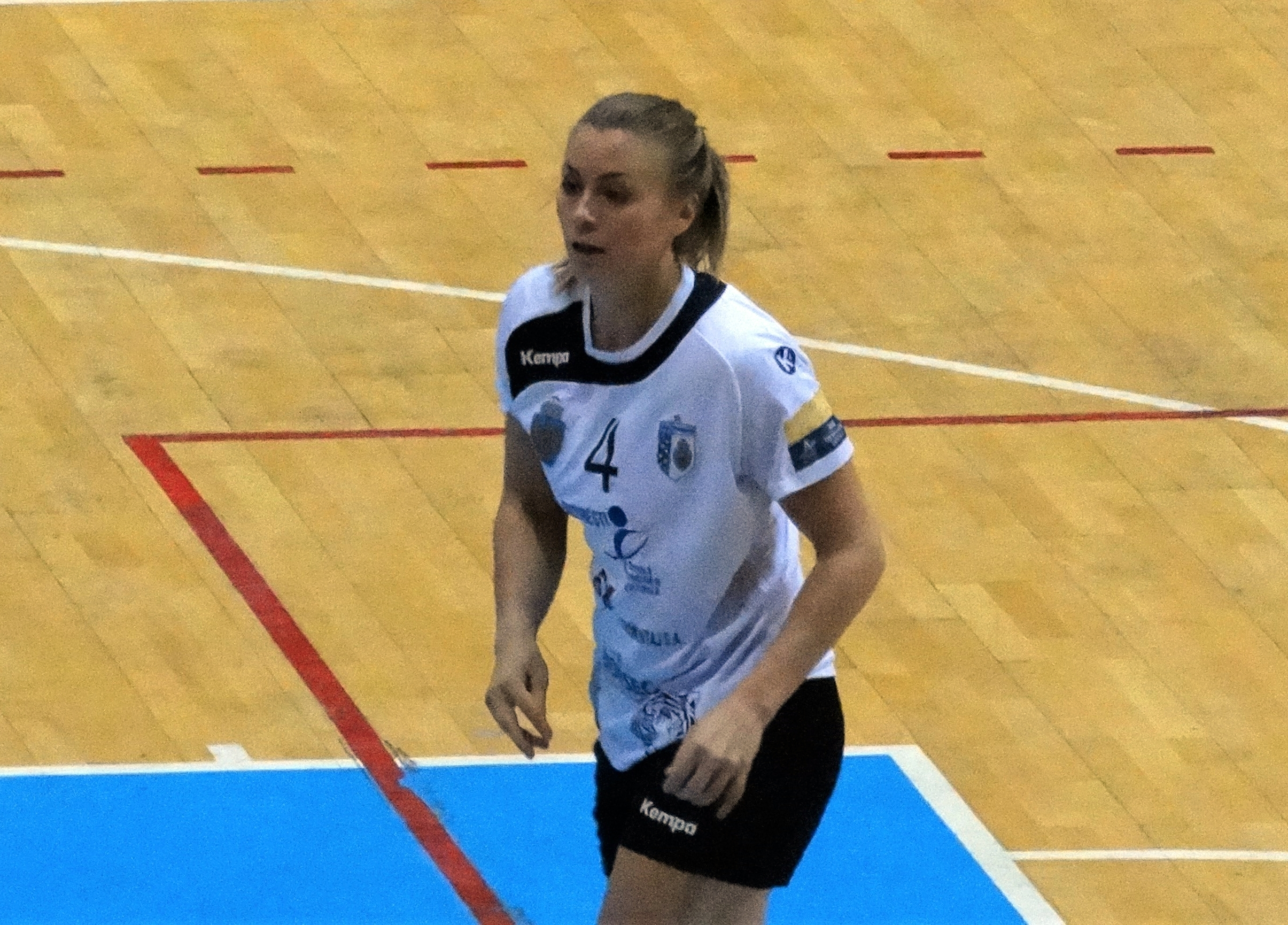 Swedish handball player Isabelle Gulldén playing for CSM București (feb, 2017).